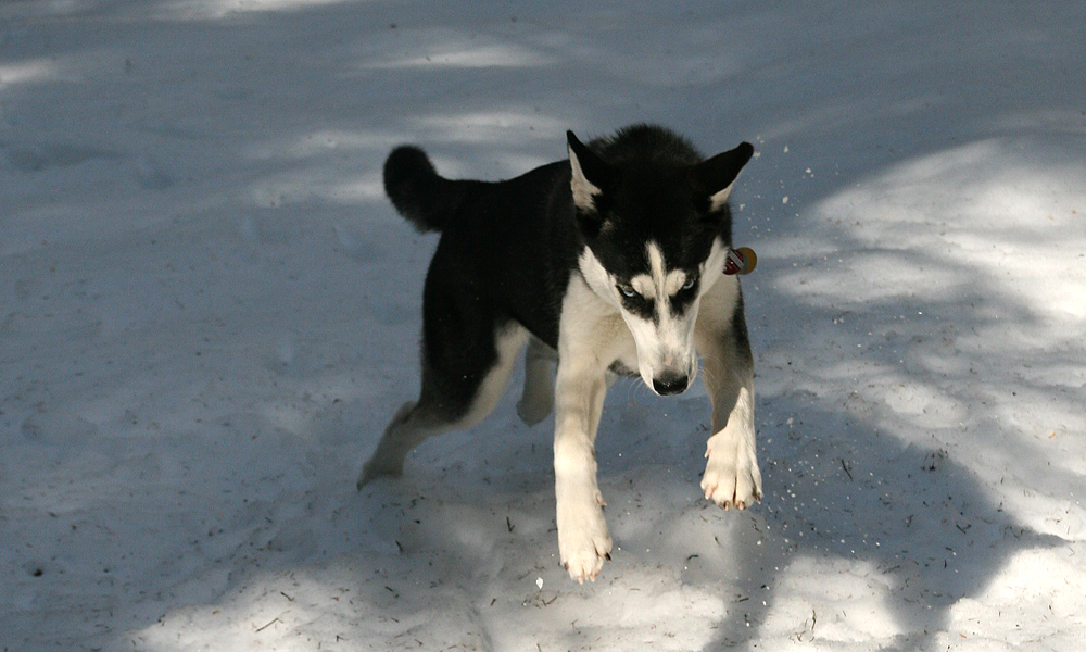 This image shows a female 6 month old Siberian Husky hunting in the Snow.